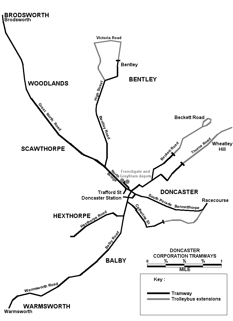 Map of Doncaster Corporation Tramways, South Yorkshire.